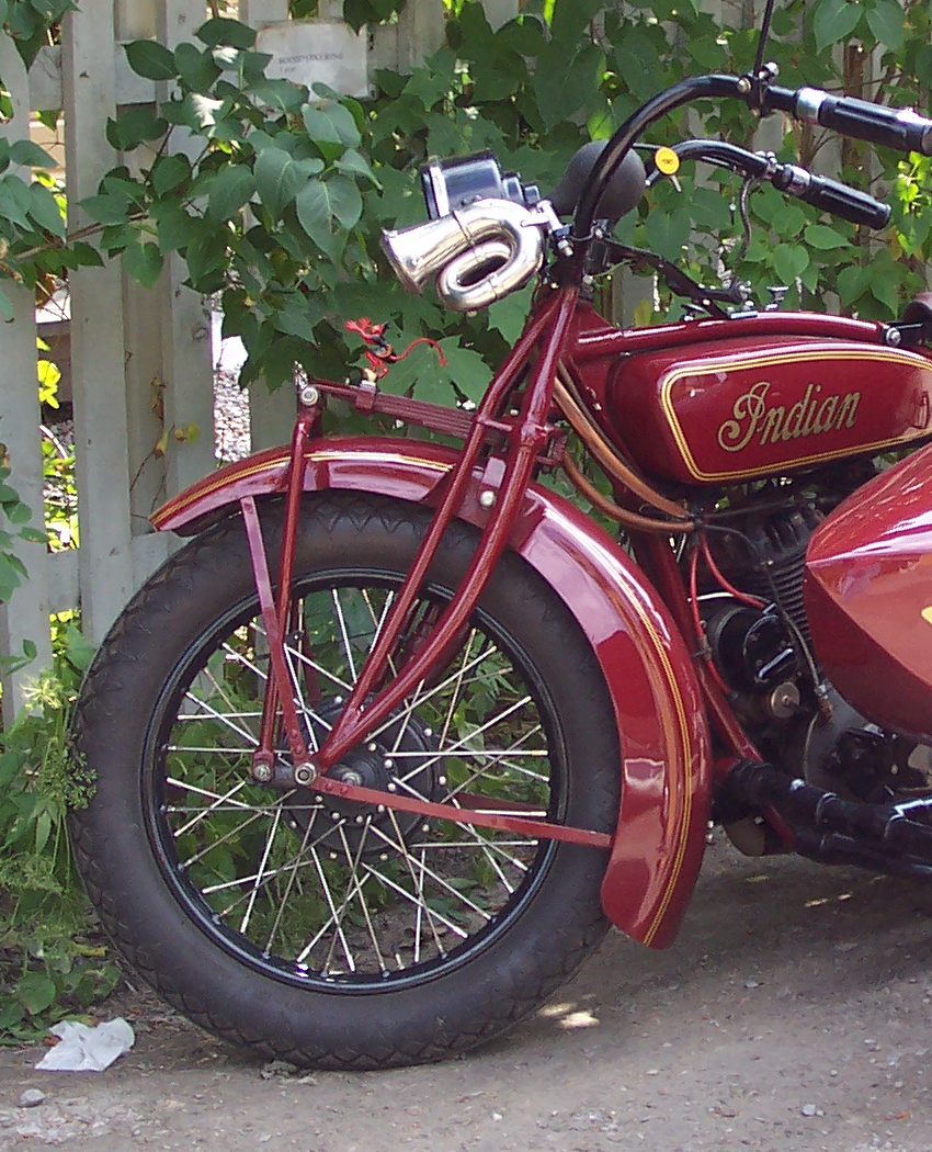 Photograph of 1928 Indian Big Chief cropped to emphasize the trailing-link front fork